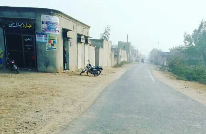 I also Uploaded this Photo on Botala Facebook Page & on website